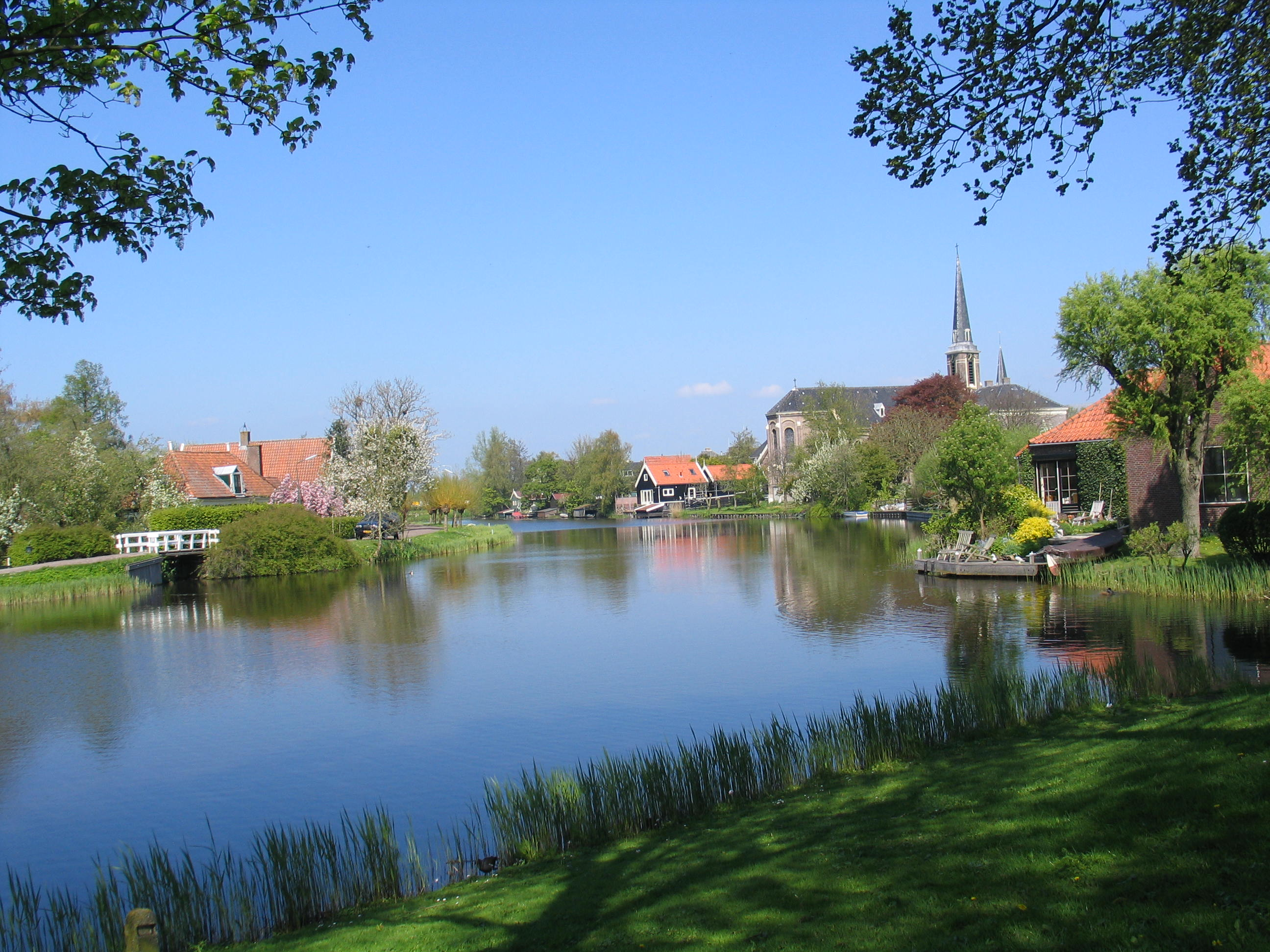 Ilpendam in North Holland